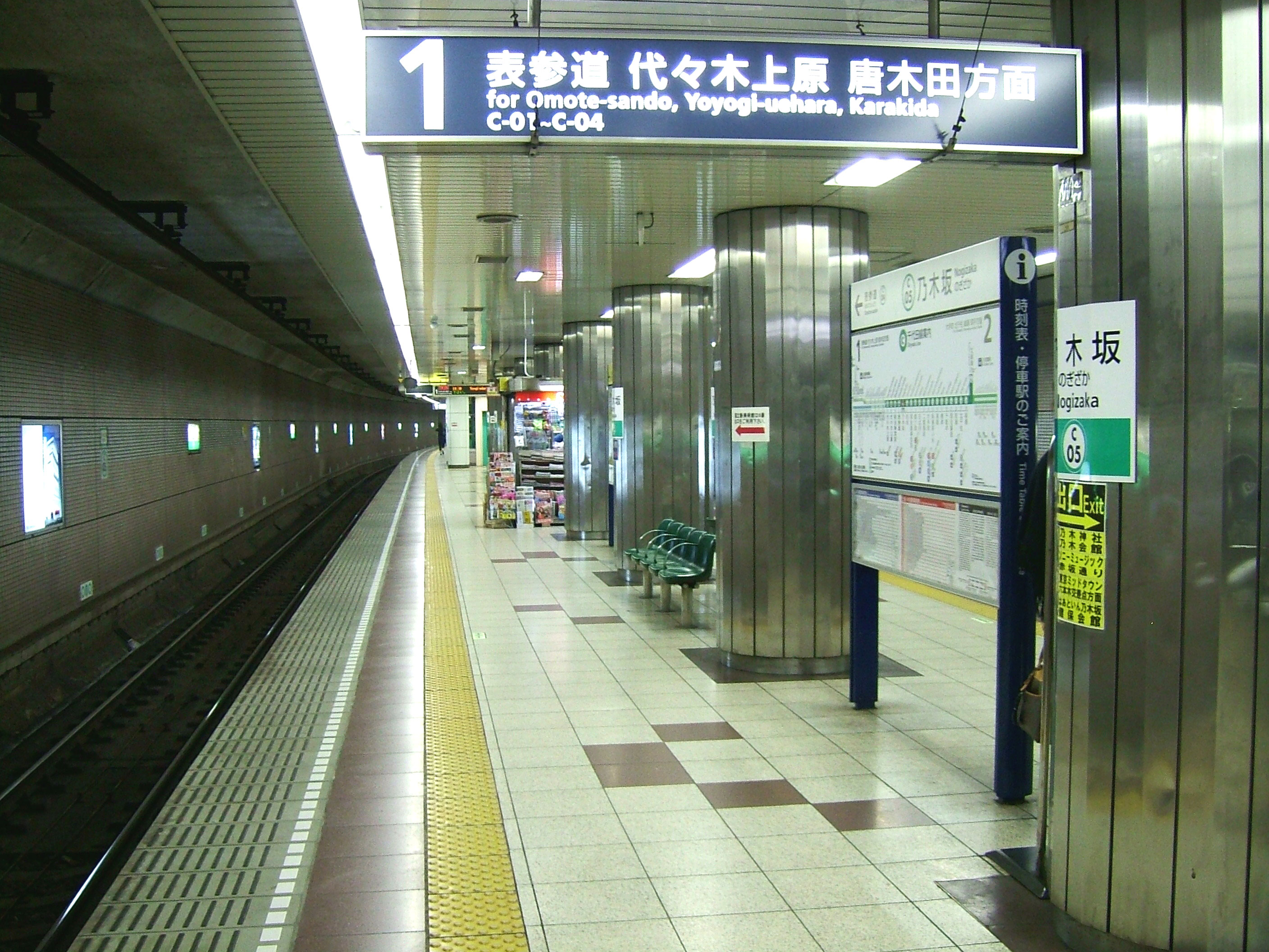 Nogizaka Station platform (Tokyo Metro Chiyoda Line)